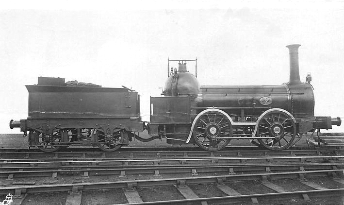 Photograph of FR engine No.3 'Old Coppernob'